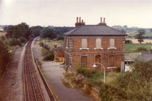 Blake Hall station, Essex. From the description over at Geograph: Taken in 1985 a year after the closure of the station, Blake Hall was the penultimate stop on the Central Line on its way to Ongar. The single-track line from Epping, via North Weald, to Ongar closed ten years later but opened in 2004 as a "tourist attraction" by the Epping and Ongar Railway Society. They run trains on Sundays all year. Uploader's note: the date of closure given is incorrect. The station closed in 1981.